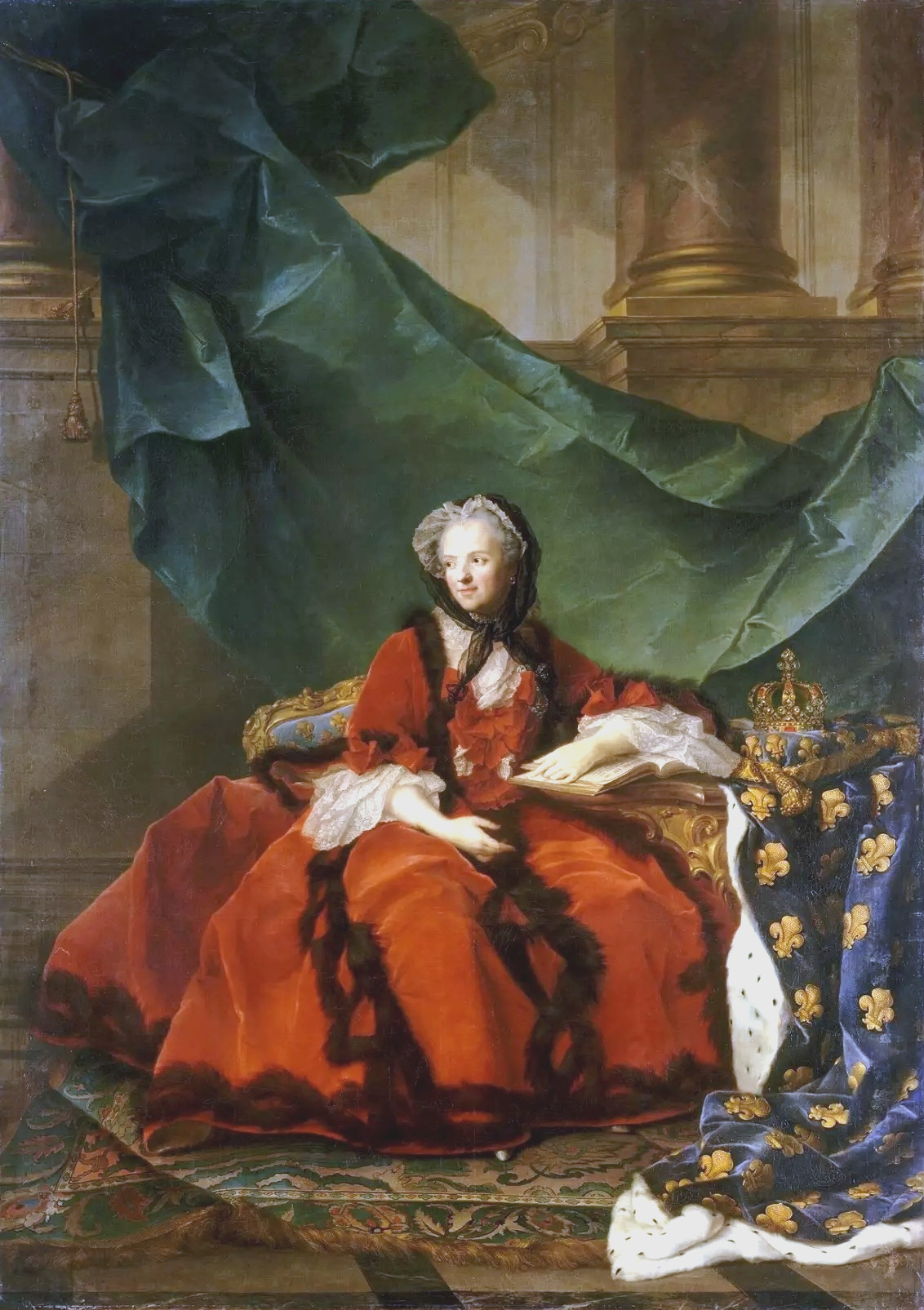 Portrait of Marie Leszczyńska by Jean-Marc Nattier